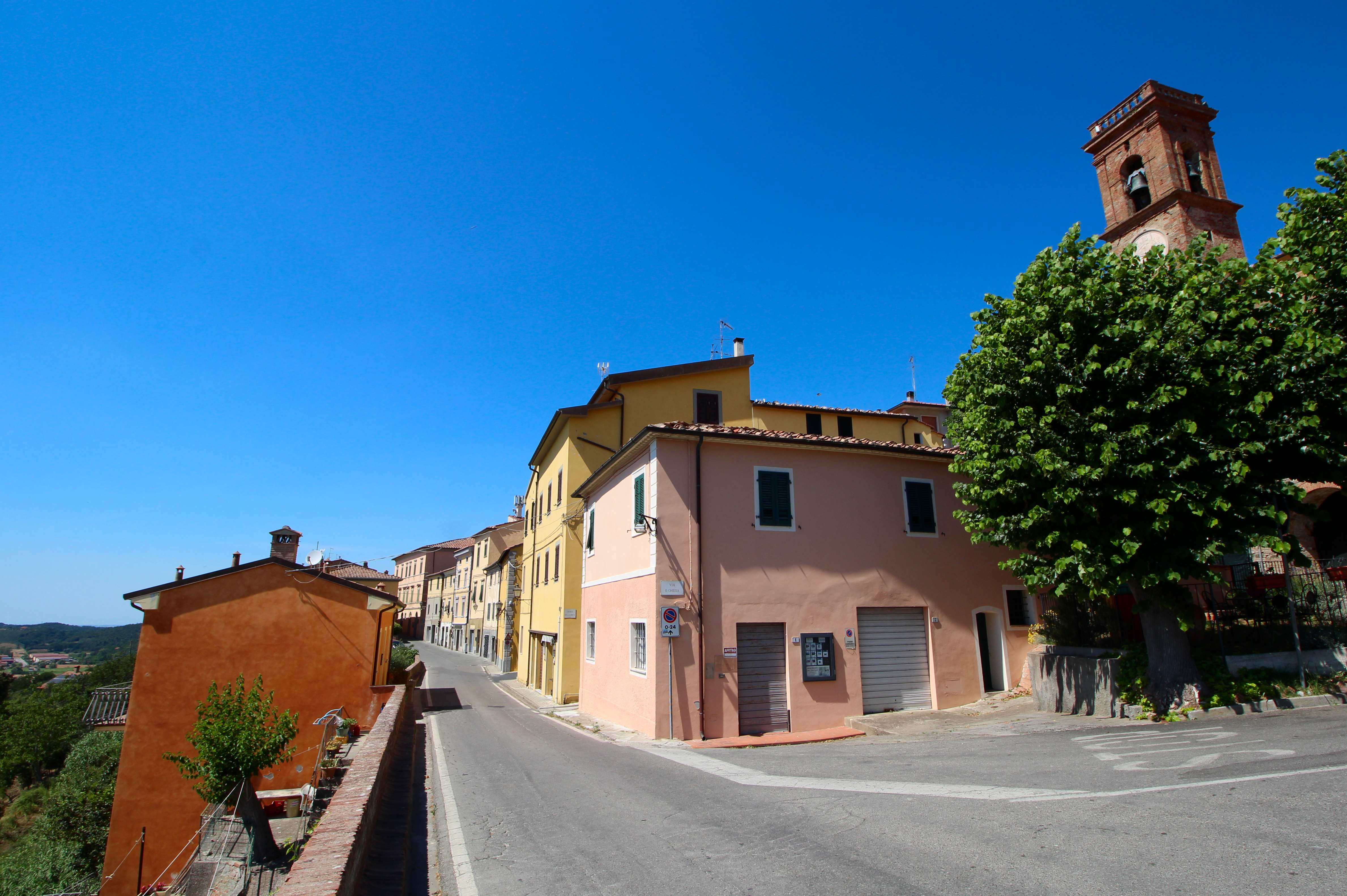 Lorenzana, hamlet of Crespina Lorenzana, Province of Pisa, Tuscany, Italy